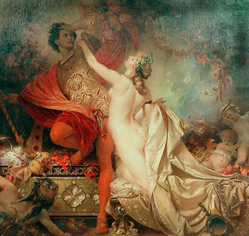 Tannhäuser and Venus